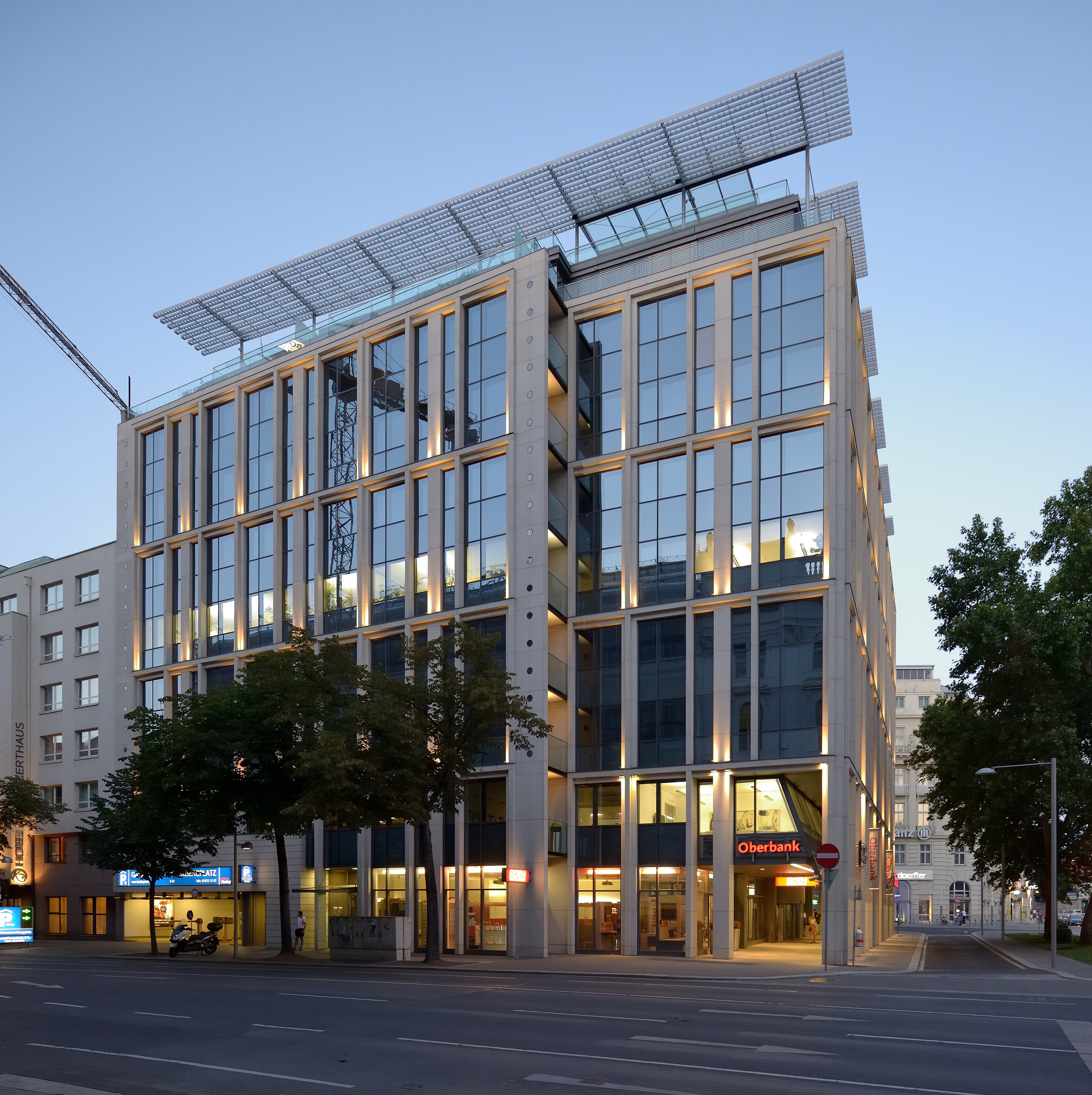 Modern building replacing the former Palais Pollack-Parnau, Schwarzenbergplatz 5, 3rd district Vienna